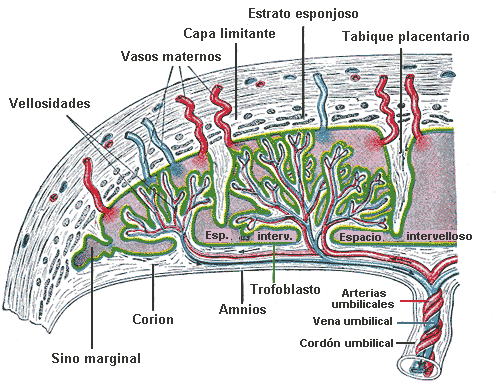 Scheme of placental circulation.